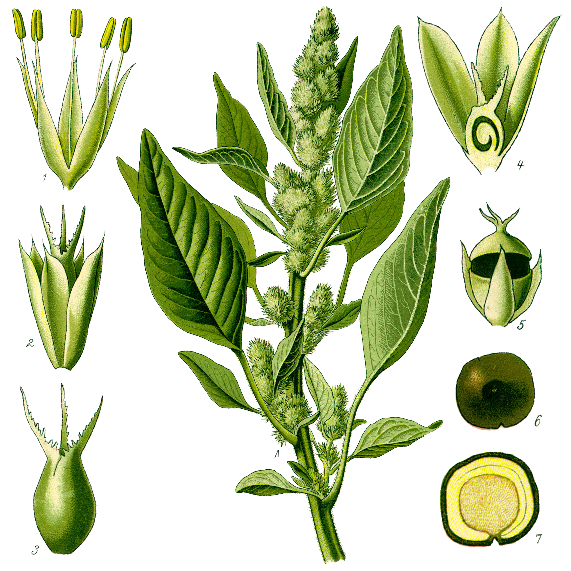 pigweed